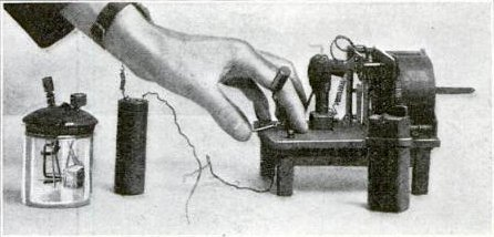 Crude experimental wireless apparatus with which British music professor David Edward Hughes transmitted radio waves in 1879, 7 years before Hertz's proof of their existence. The apparatus consists of a spark transmitter attached to a clock (right), which transmitted a regular string of spark pulses, and a modified version of his carbon microphone (acting in a similar the roll to later devices called coherers) with which Hughes detected the pulses. Hughes set the transmitter running, then left his apartment with the receiver to see how far these "aerial waves" would go; he detected the pulses up to 500 yards from the transmitter. Hughes demonstrated his wireless "electric wave" transmission to a number of Royal Society scientists in 1880 who (incorrectly) told him the phenomenon was due to induction. Hughes, who was not a scientist, was unable to provide an alternate theory of transmission and accepted their explanation. Hughes' experiment did not come to light until 1899, 11 years after Heinrich Hertz published his proof of the existence of electromagnetic waves. The apparatus had been abandoned in Hughes tenement and was found in 1922.